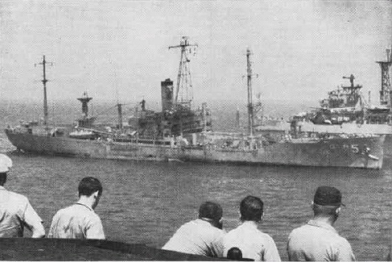 Picture taken of the damaged U.S. Navy SIGINT ship USS Liberty (AGTR-5) which had been damaged on 8 June 1967 in the Mediterranean Sea by Israeli forces during the Six Days War. The picture was taken from the aircraft carrier USS America (CVA-66). Behind Liberty, the aft SPS-30 radar of the guided missile cruiser USS Little Rock (CLG-4), flagship of the 6th Fleet, is visible.